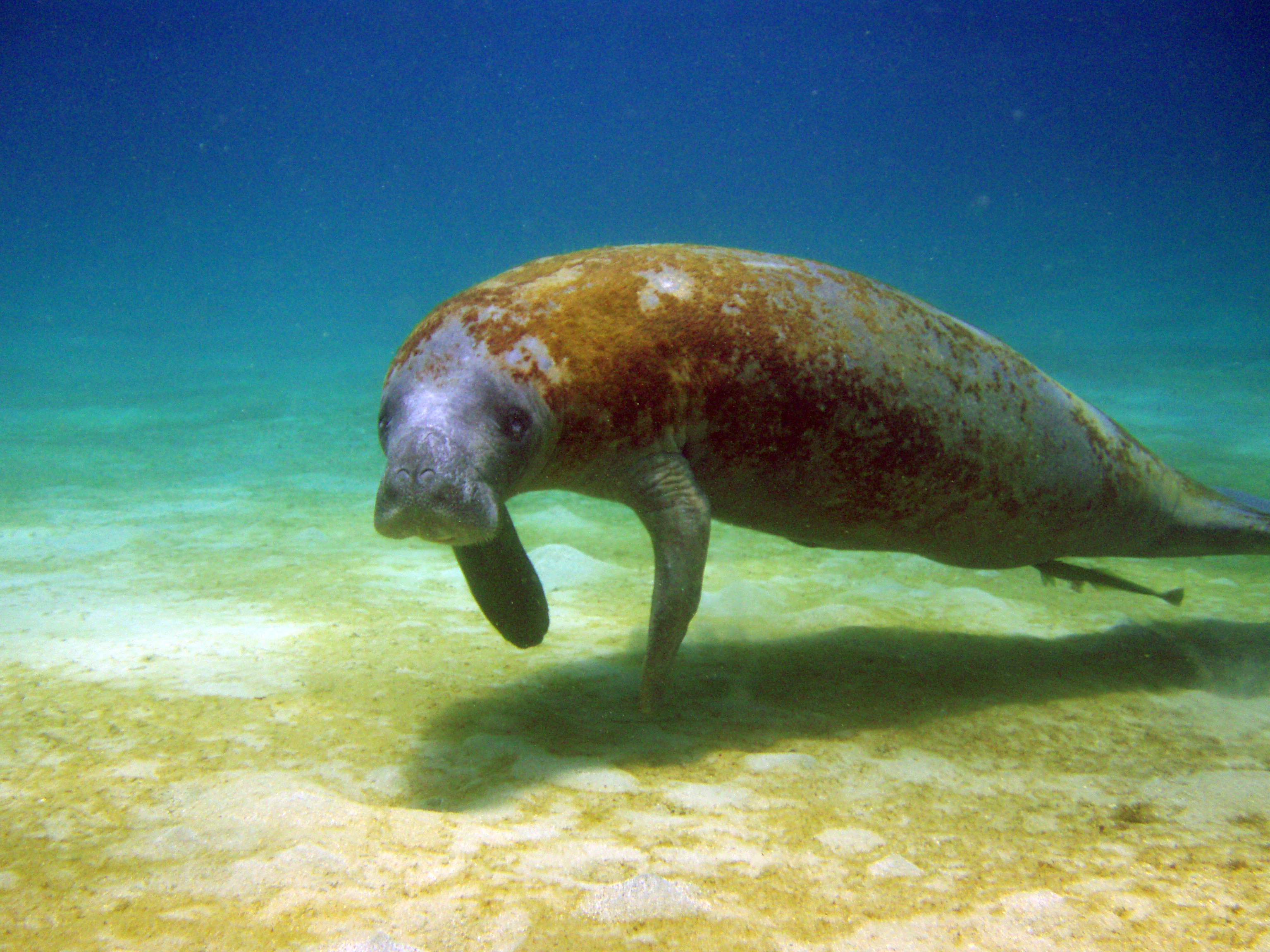 manatee Common name